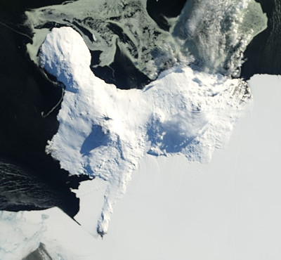 Ross Island